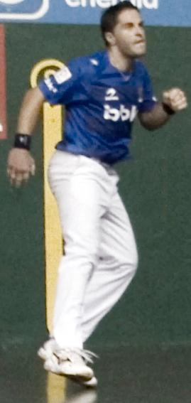 Olaizola II in a blue shirt during a game